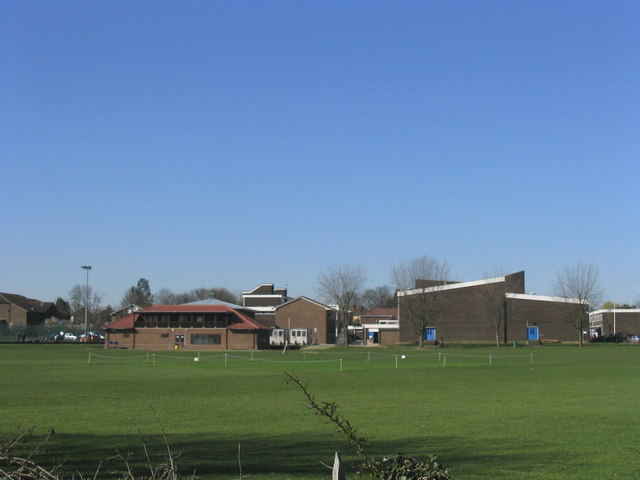 Coopers' Company & Coborn School, Upminster. Located on south side of St Marys Lane, this school was originally established by the Worshipful Company of Coopers. It has specialist status as a sports college.